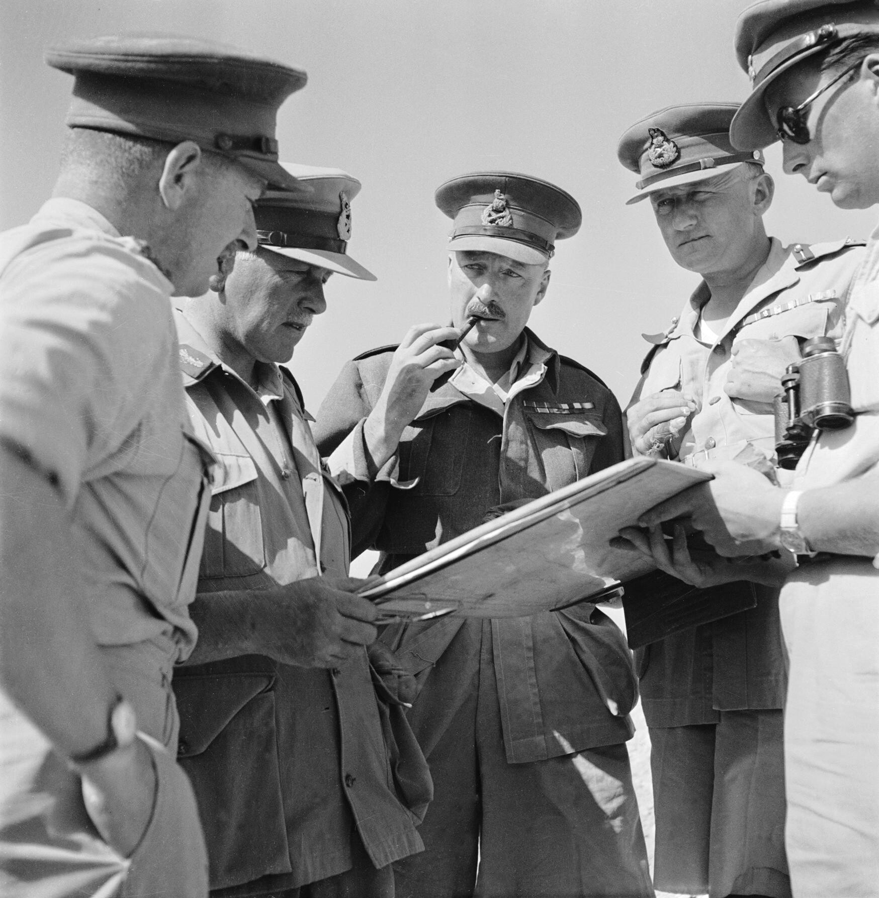 IWM caption : General Sir Neil Ritchie (1897 - 1983): Lieutenant General Ritchie, Commander in Chief 8th Army, with his Corps Commanders, Generals Norrie and Gott, during the Battle of Gazala.